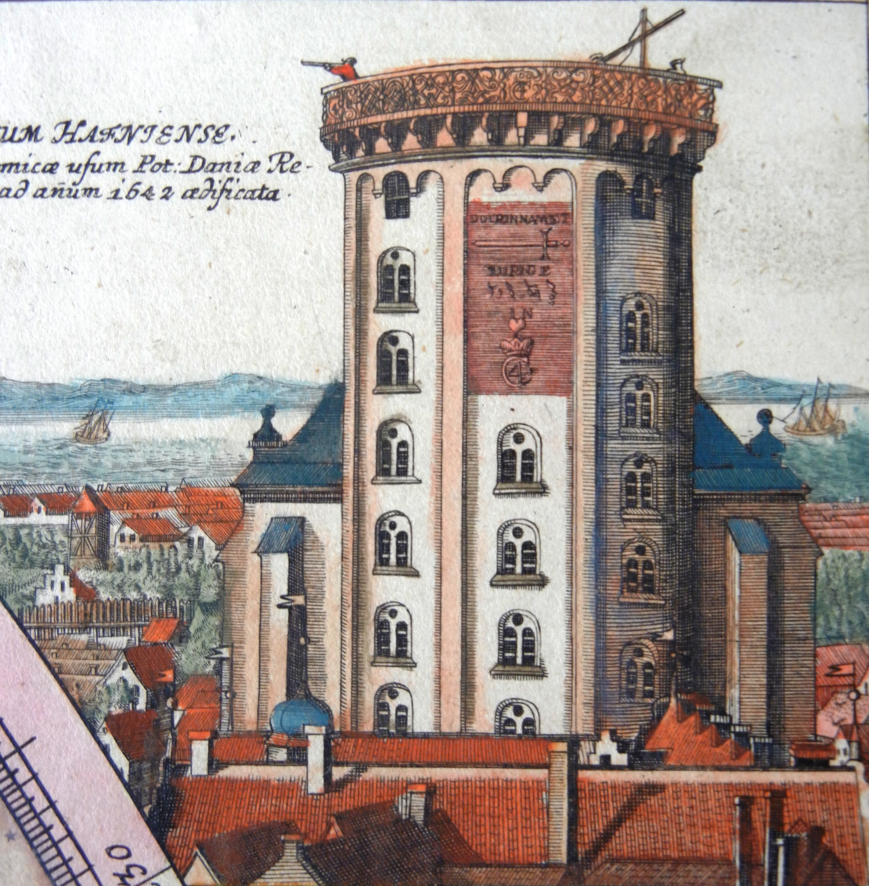 Vignette of Rundetarn Observatory as included in the map of the southern celestial hemisphere by astronomer and cartographer Johann Doppelmayr, ca. 1730.